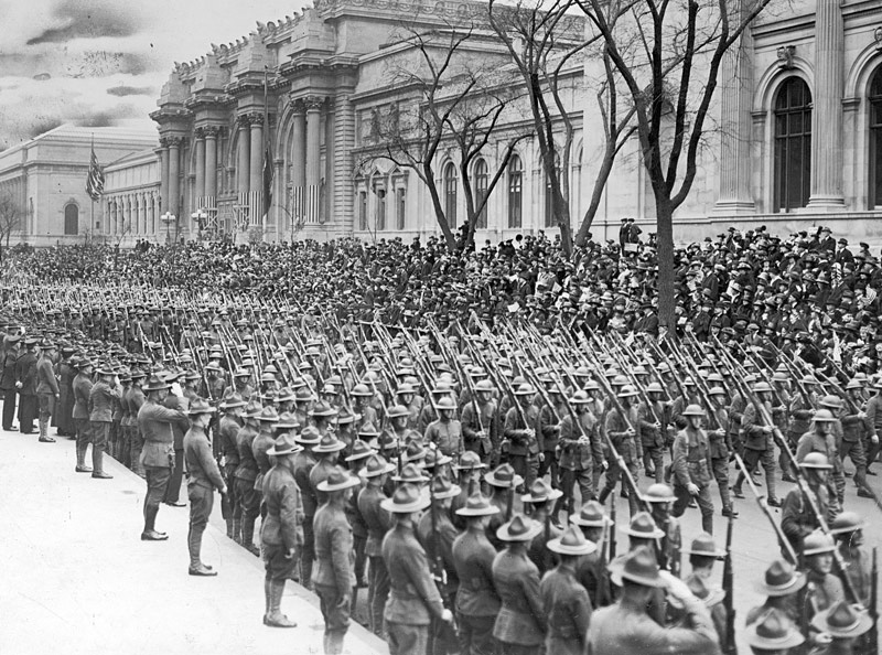 "New York City's 69th Regiment returned from World War I to great fanfare, marching up Fifth Avenue from Washington Square to 115th Street. The backdrop here is the Metropolitan Museum of Art, site of the reviewing stand, where Governor Alfred E. Smith and Mayor John F. Hylan welcomed the troops home April 28, 1919."